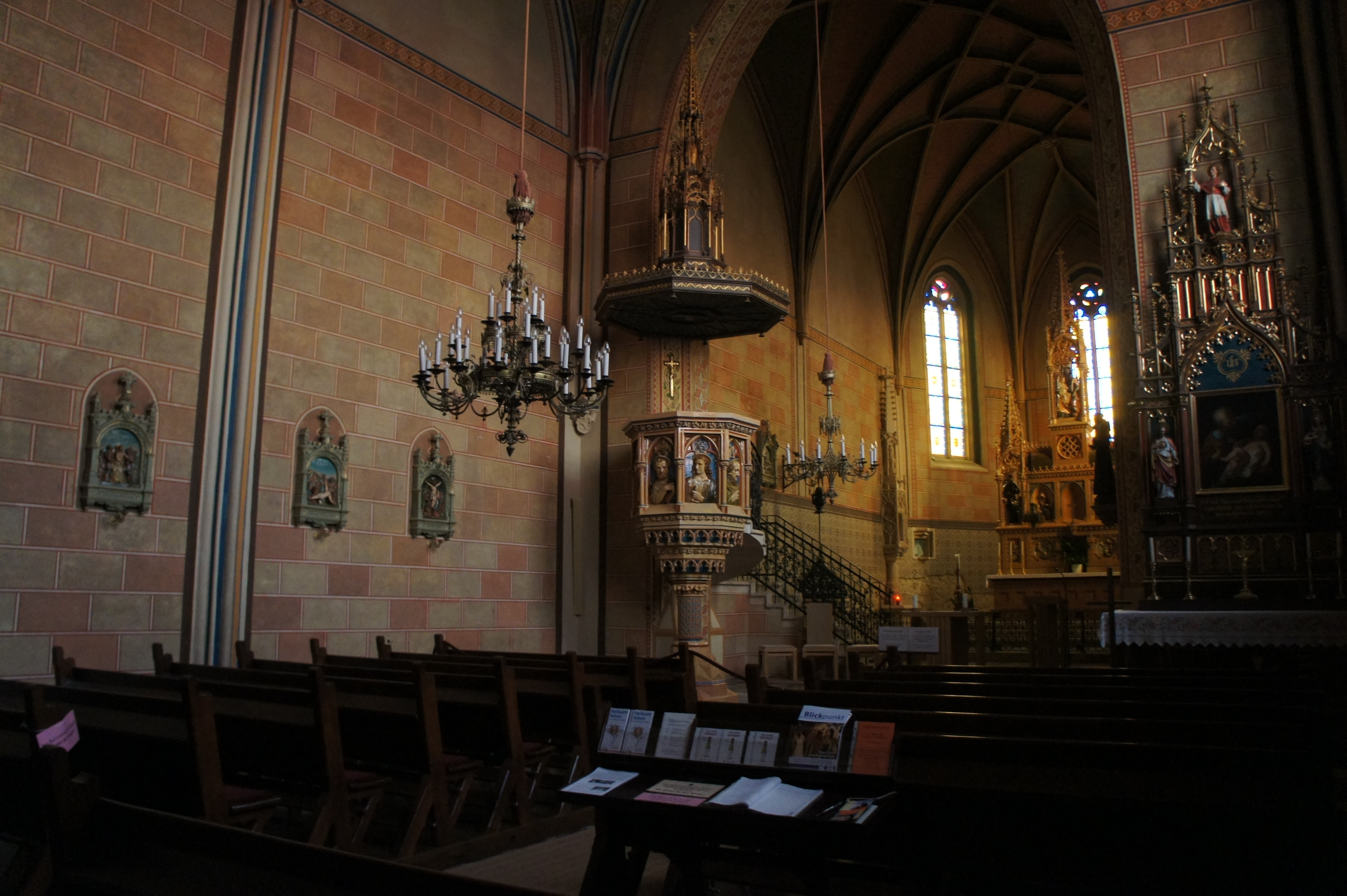 Catholic church St. Mary, Mariasdorf, Austria